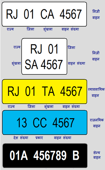 A example for various Indian vehicle registration plates types and numbering series. Can vary according to state law.